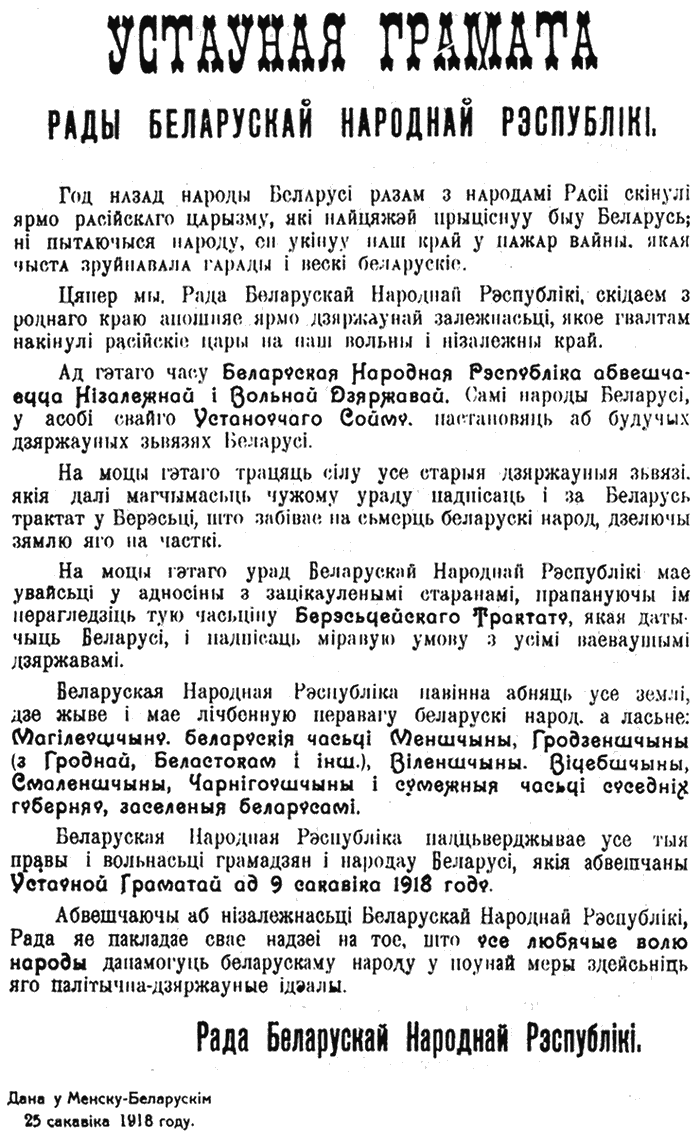 Third charter of Belarusian People's Republic signed by Jazep Varonka, Arkadź Smolič, Paluta Badunova, Kanstancin Jezavitaŭ, Tamaš Hryb, Piotr Kračeŭski, Ivan Syerada, Liavon Zajac and several other ministers